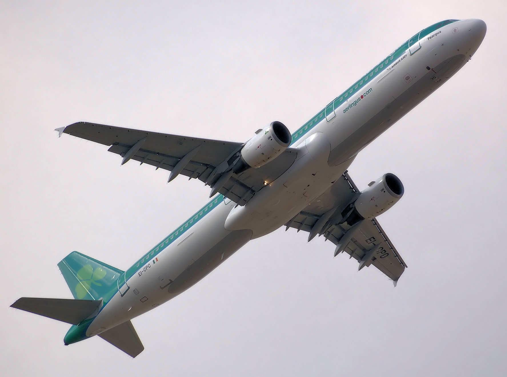 Aer Lingus Airbus A321-200 (EI-CPC) takes off from London Heathrow Airport, England.